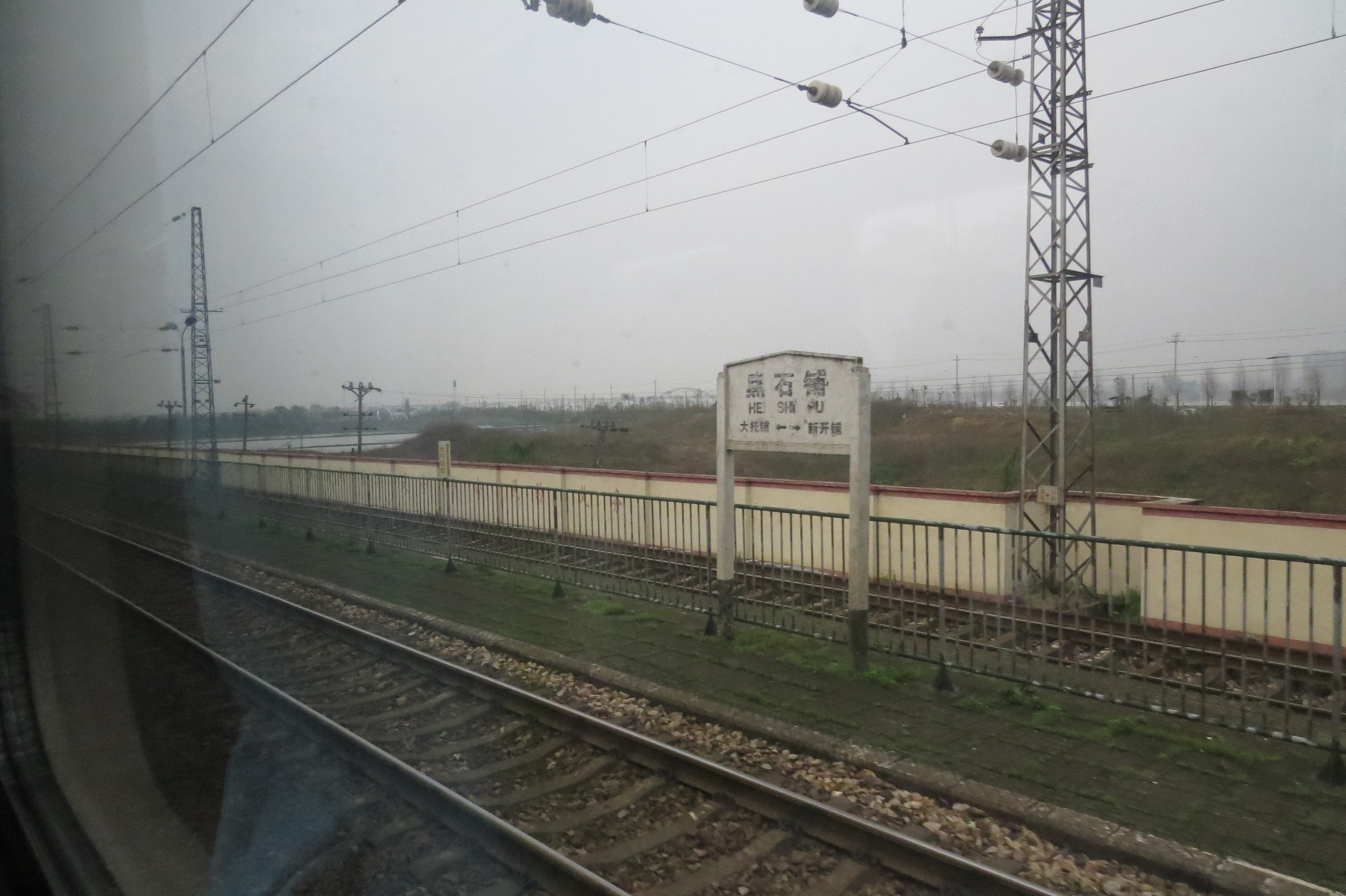 Taken from T253 en route from Changsha to Zhuzhou.